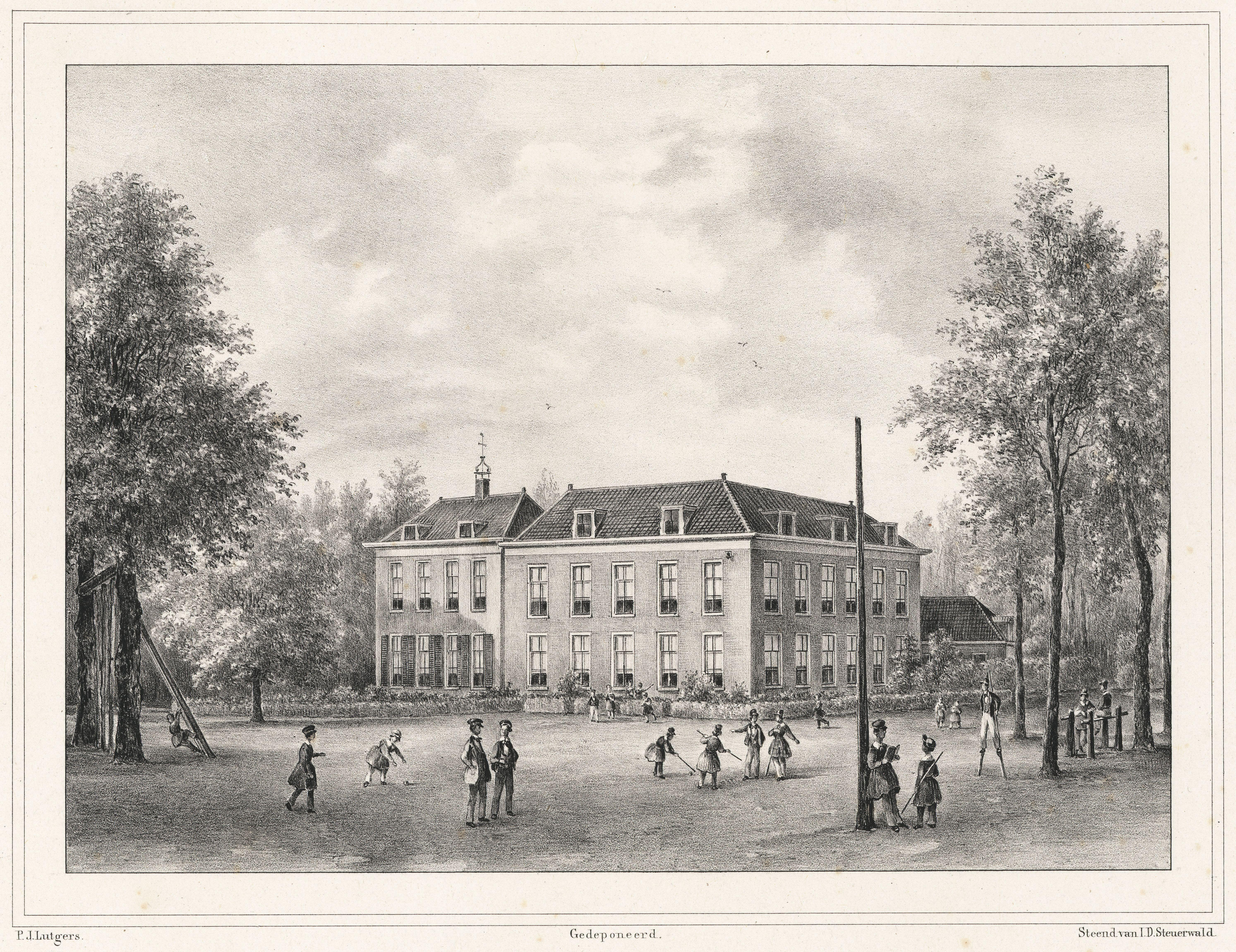 Buitenplaats Noortheij, gelegen in Veur (Leidschendam), gezien uit het noordoosten. Uit: Gezigten in de omstreken van 's-Gravenhage en Leyden. Steendruik 1855. P.J. Lutgers & I.D.Steuerwald